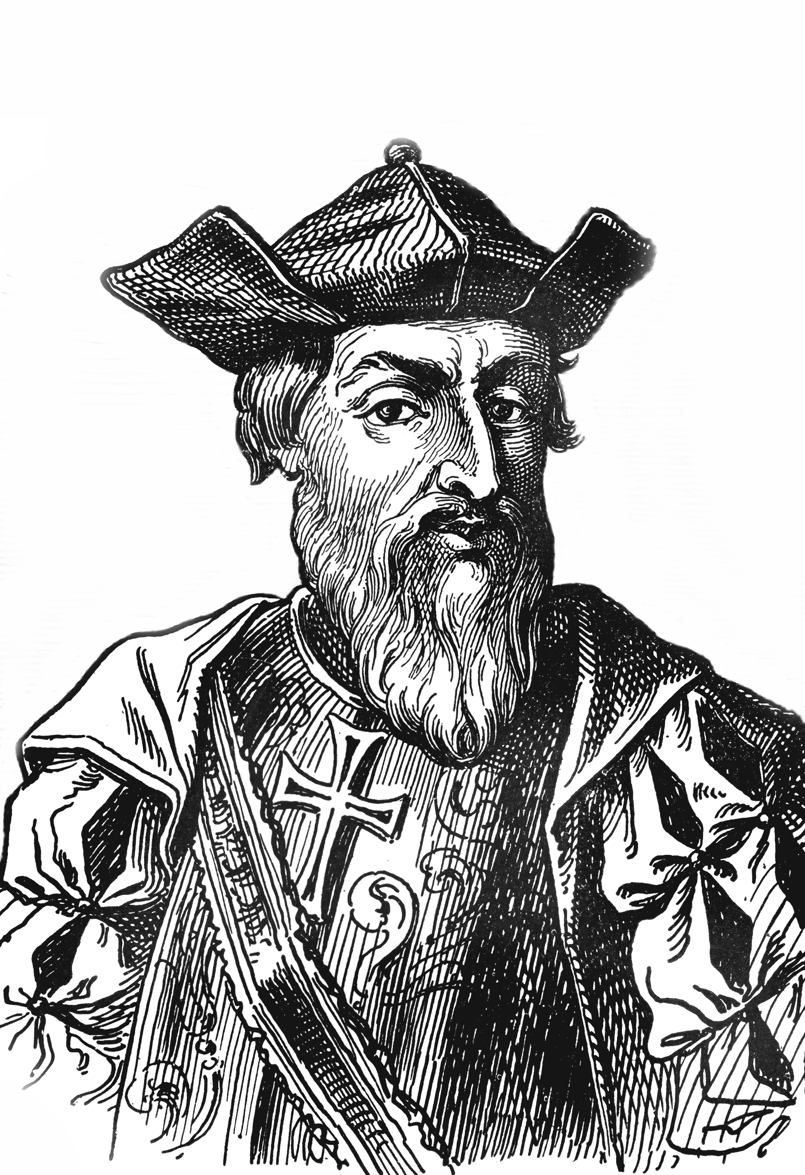 Vasco da Gama, Portuguese navigator.